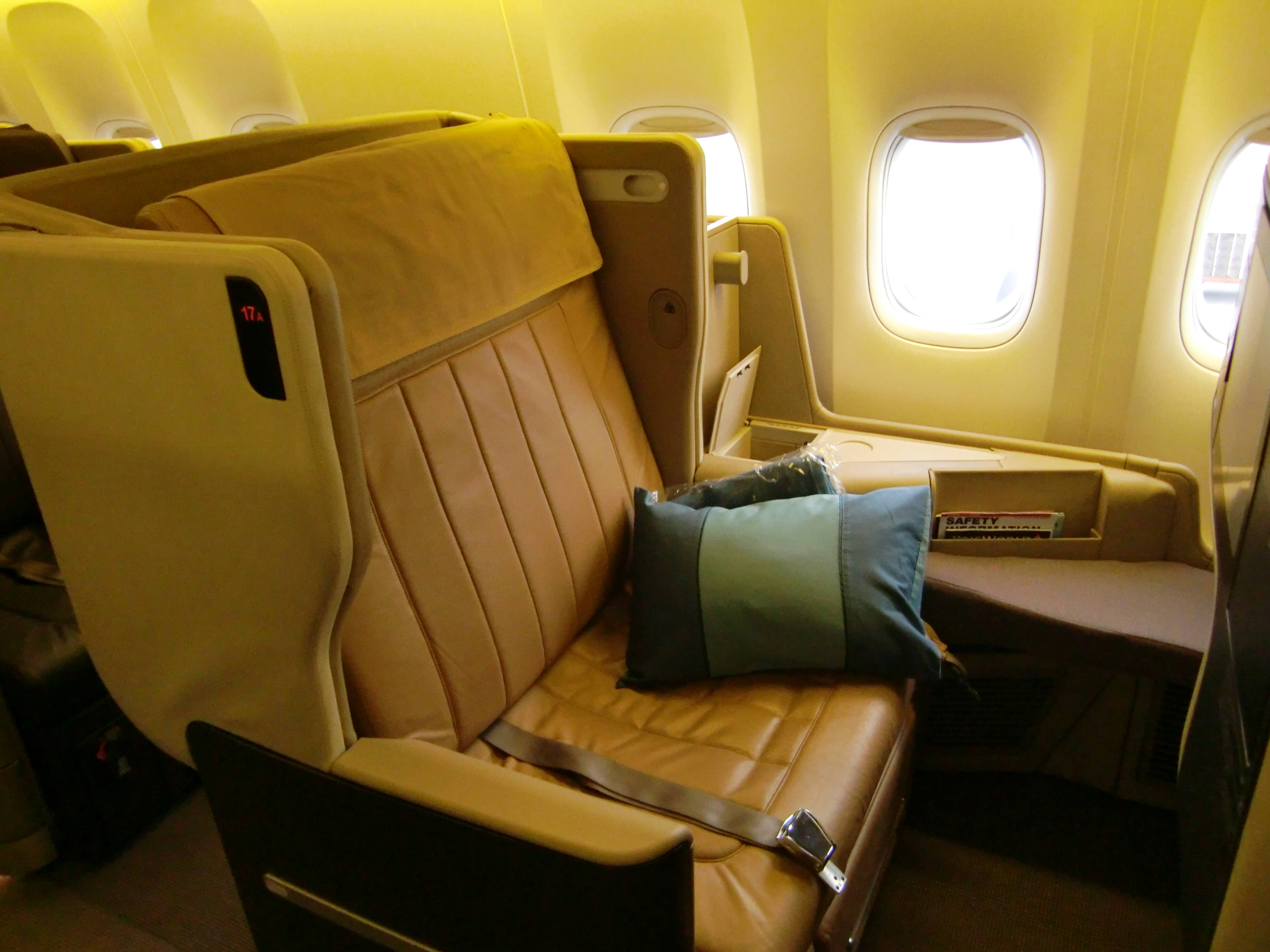 Singapore Airlines,B-777-300-ER most wide business-class seat at 2008